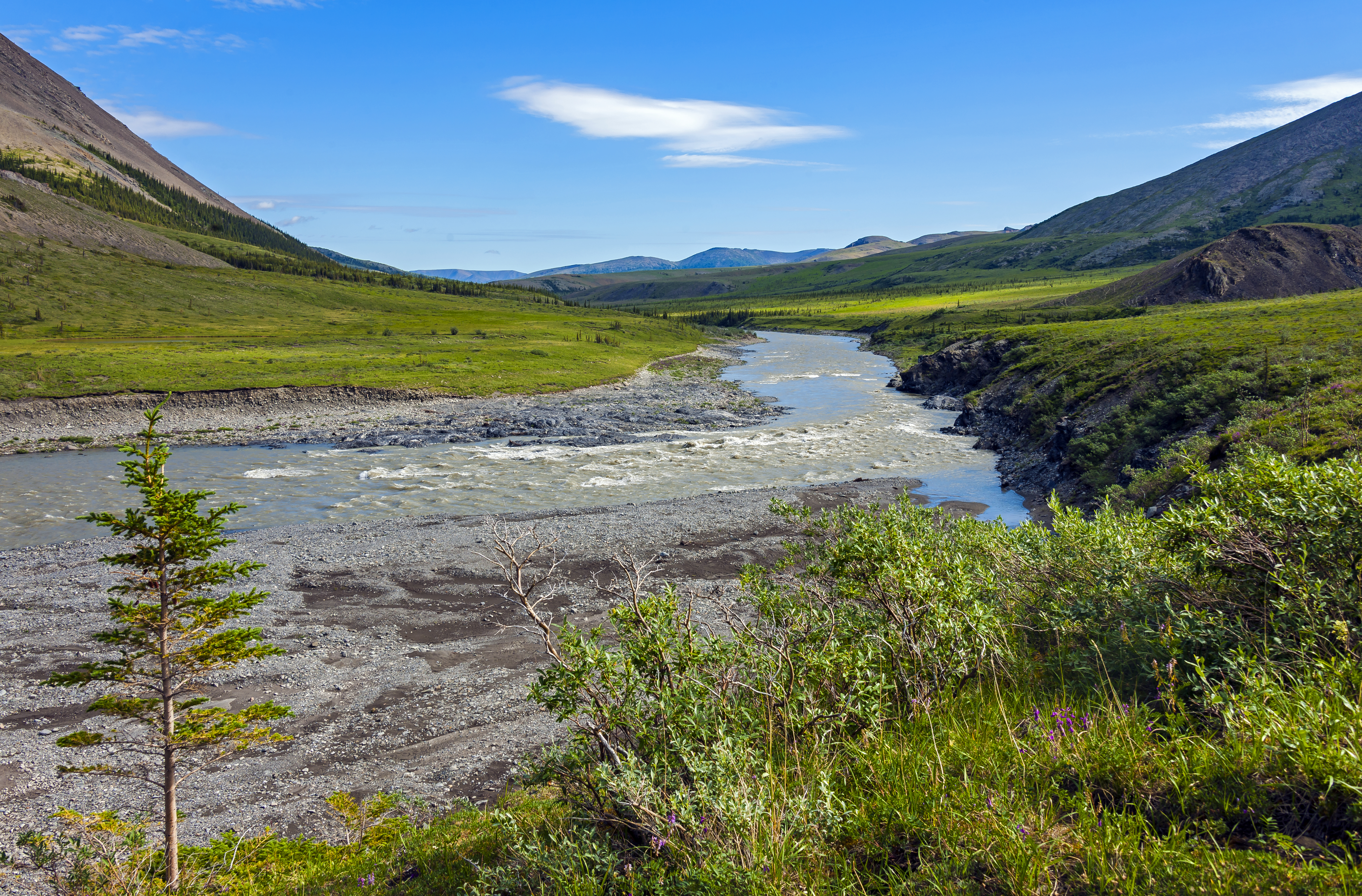 Sluice Rapids in the Firth River, a couple of days after a heavy rain, in Canada's Ivvavik National Park.